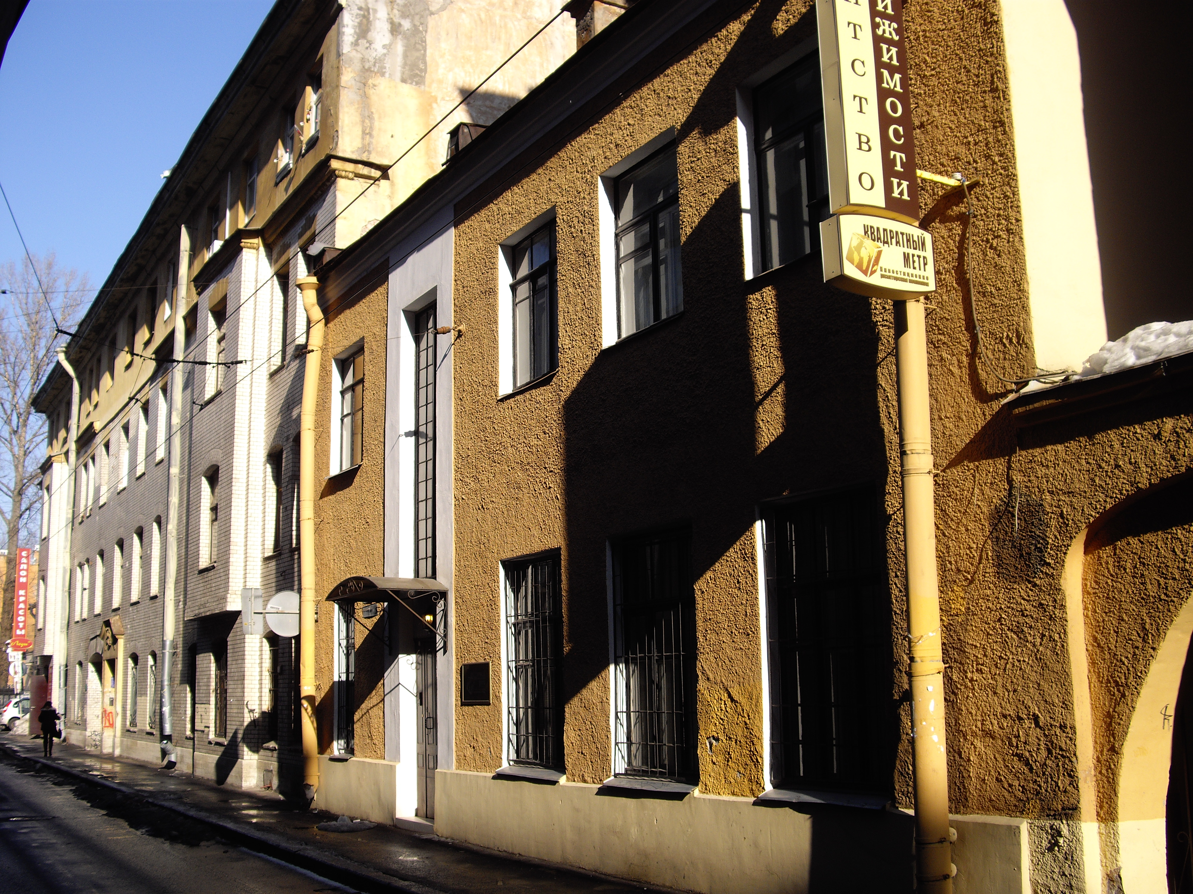 7 and 9, Barmaleeva street (Saint-Petersburg, Russia)